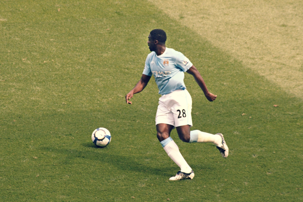 Kolo Touré of Manchester City FC.